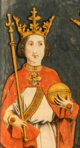 Ruprecht III. Elector of the Palatinate from 1398 to 1410 and king of the Holy Roman Empire, miniature